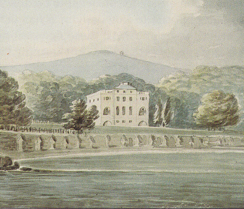 Watercolour of the newly built (New) Nutwell House, Woodbury, Devon, by Rev. John Swete (d.1821). Painted during his travels of May 1799, recorded in his Illustrated Journals. Devon Record Office 564M/F16/94